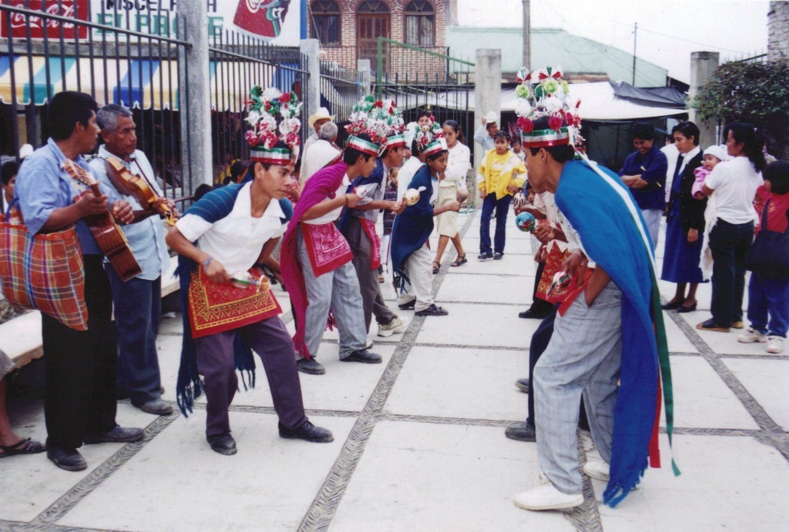 Danza de los chules